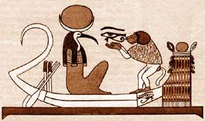 Thoth